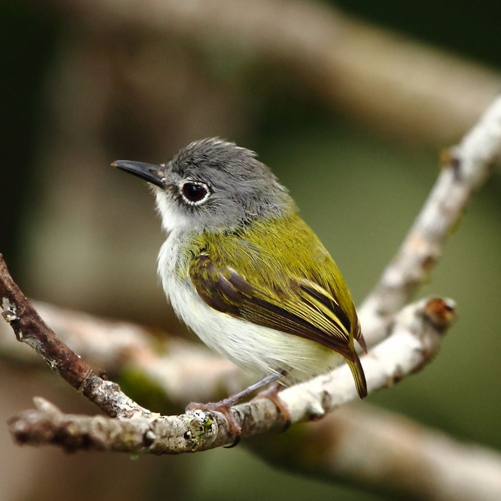 Short-tailed Pigmy-Tyrant at Manaus - Amazonas - Brazil